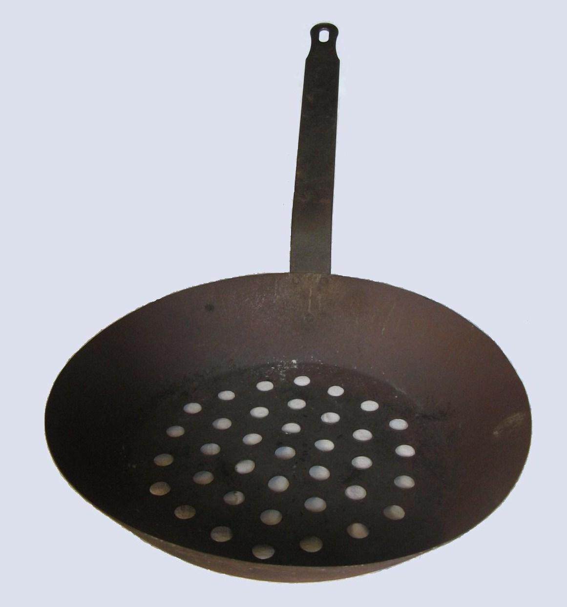 "frying pan to cook chesnuts"